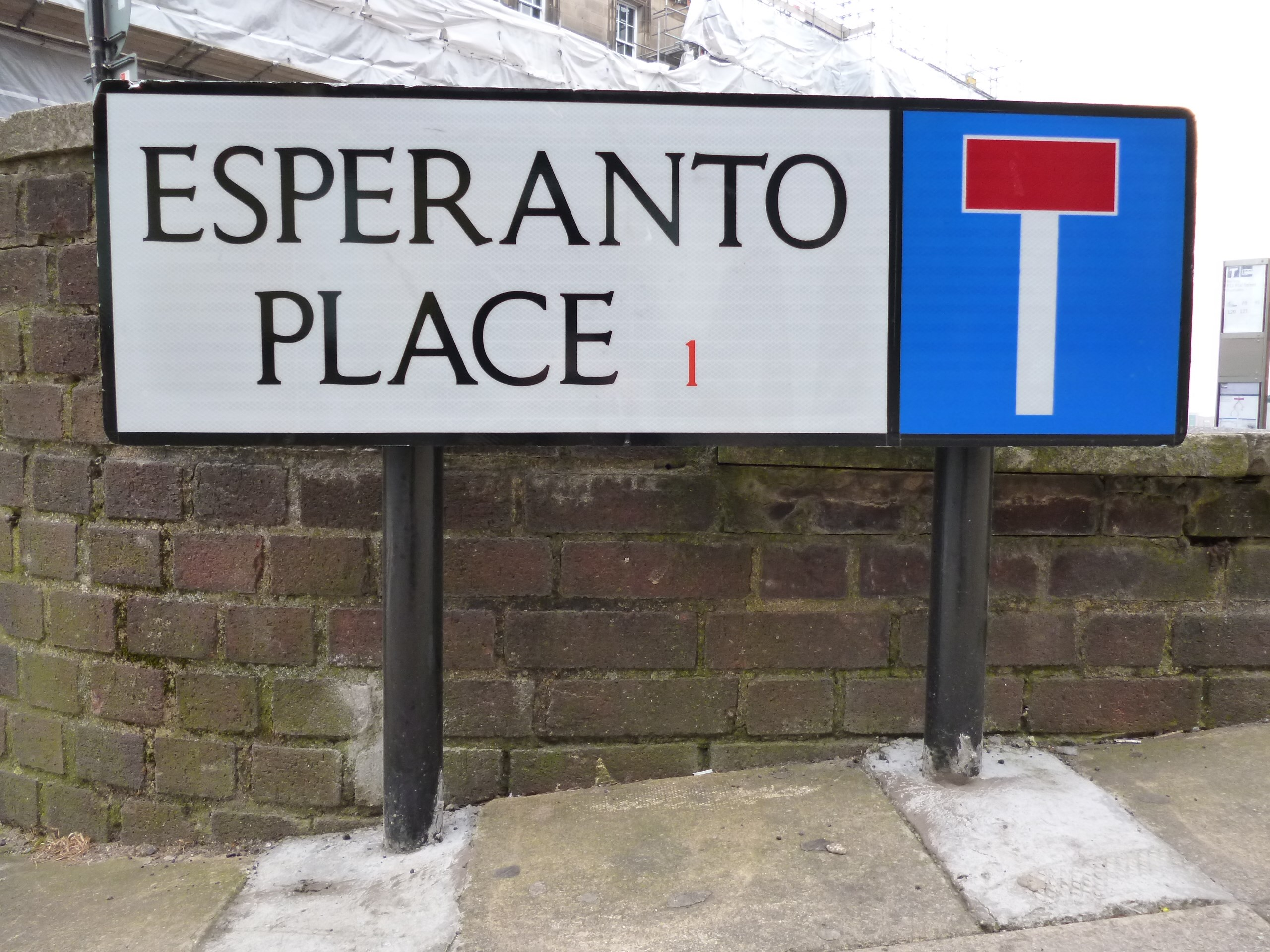 Streetname sign of Esperanto Place, Sheffield. The street was named during the British Congress of Esperanto in 1974